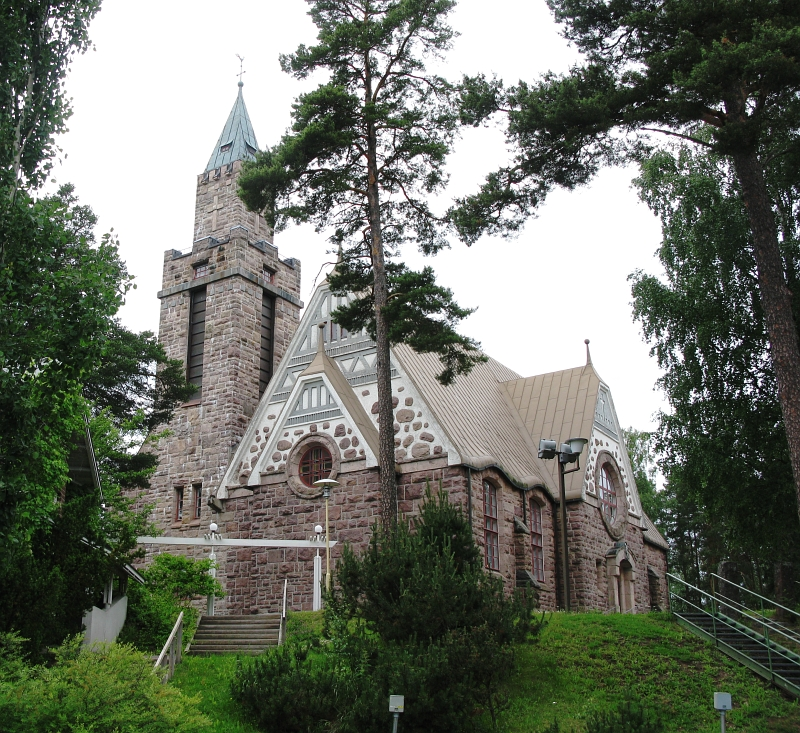 Luvia Church in Luvia, Finland. Built in 1908–1910. Architect: Josef Stenbäck.